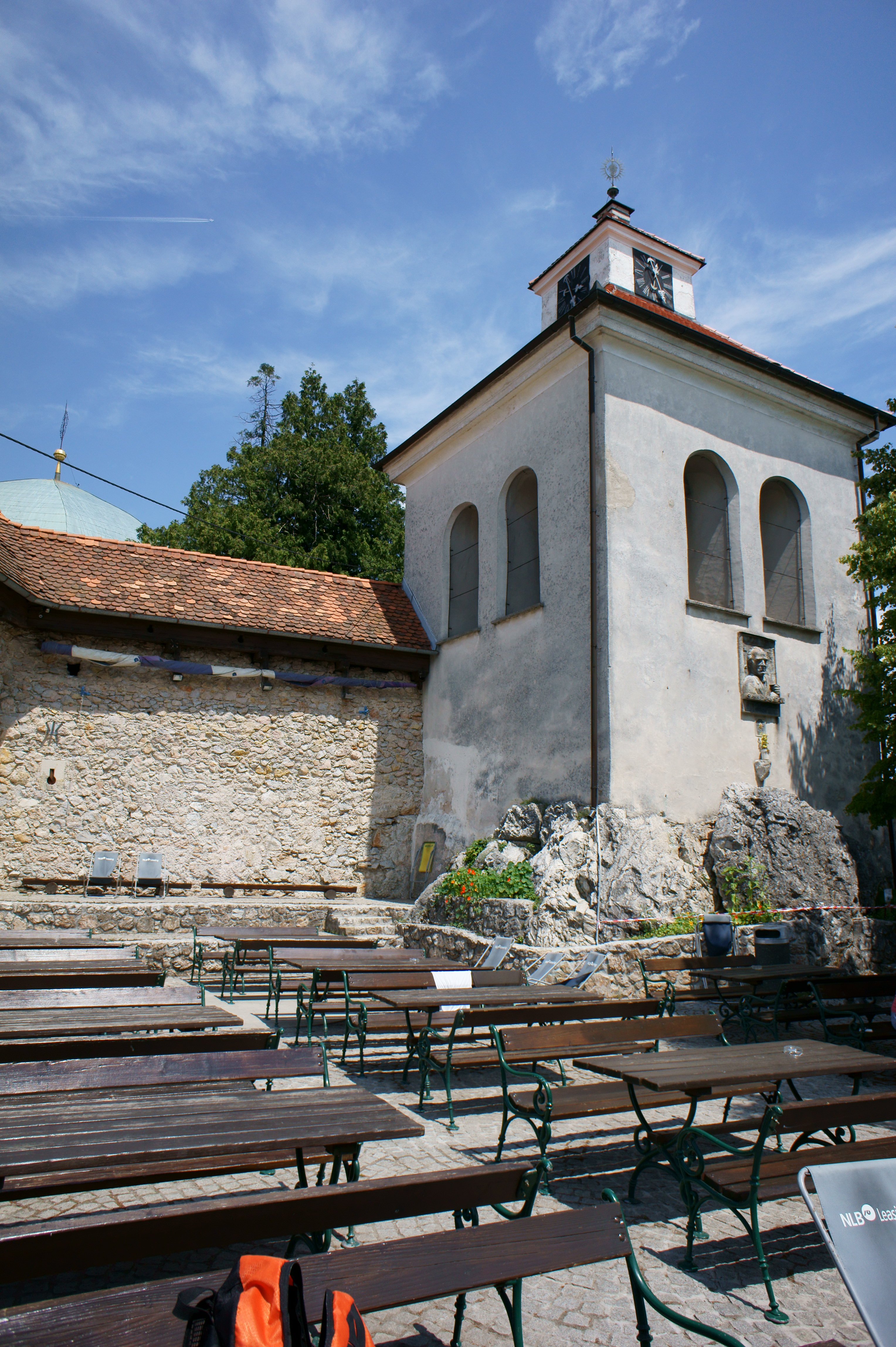 The bell tower at Šmarna Gora, part of the wall around the Mother of God Church at Šmarna Gora.